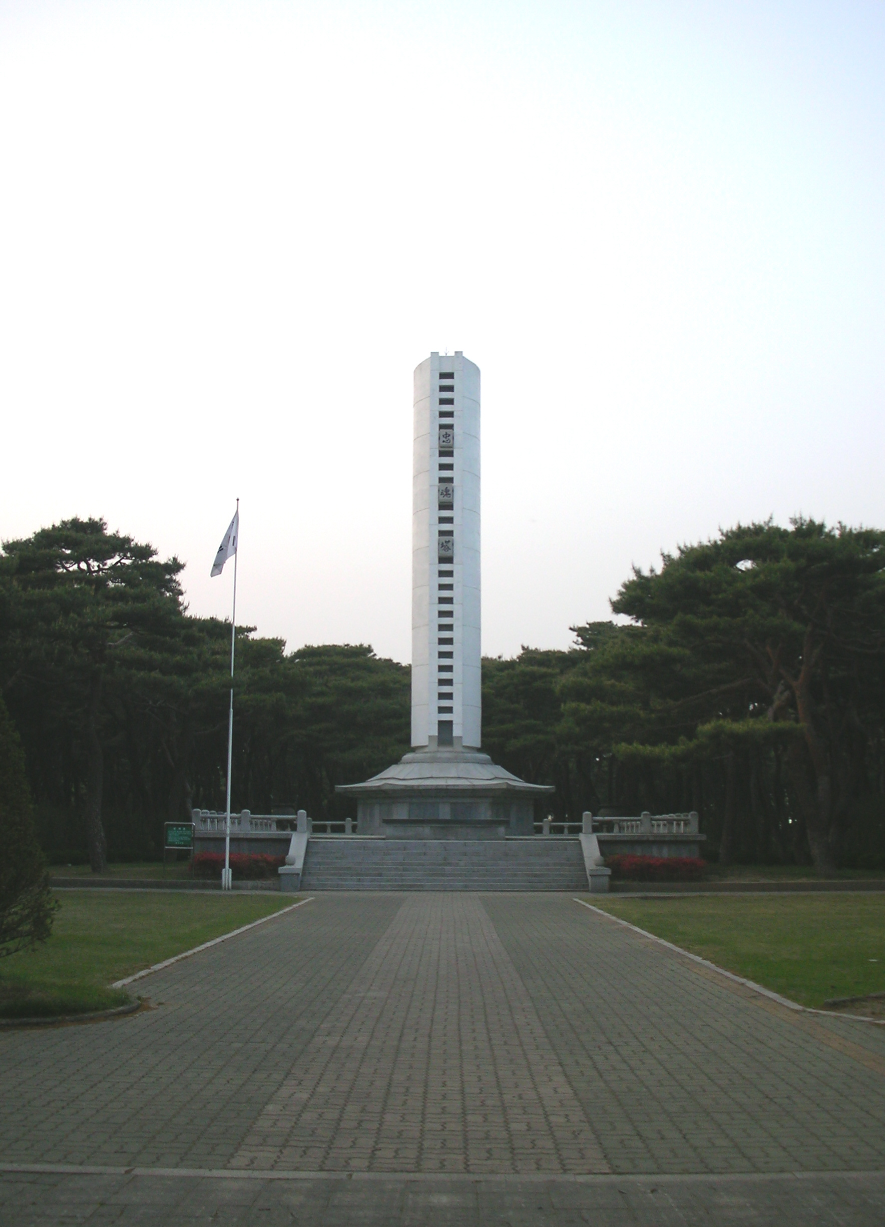 Chunghon Tower on Hwangsung Park, Gyeongju